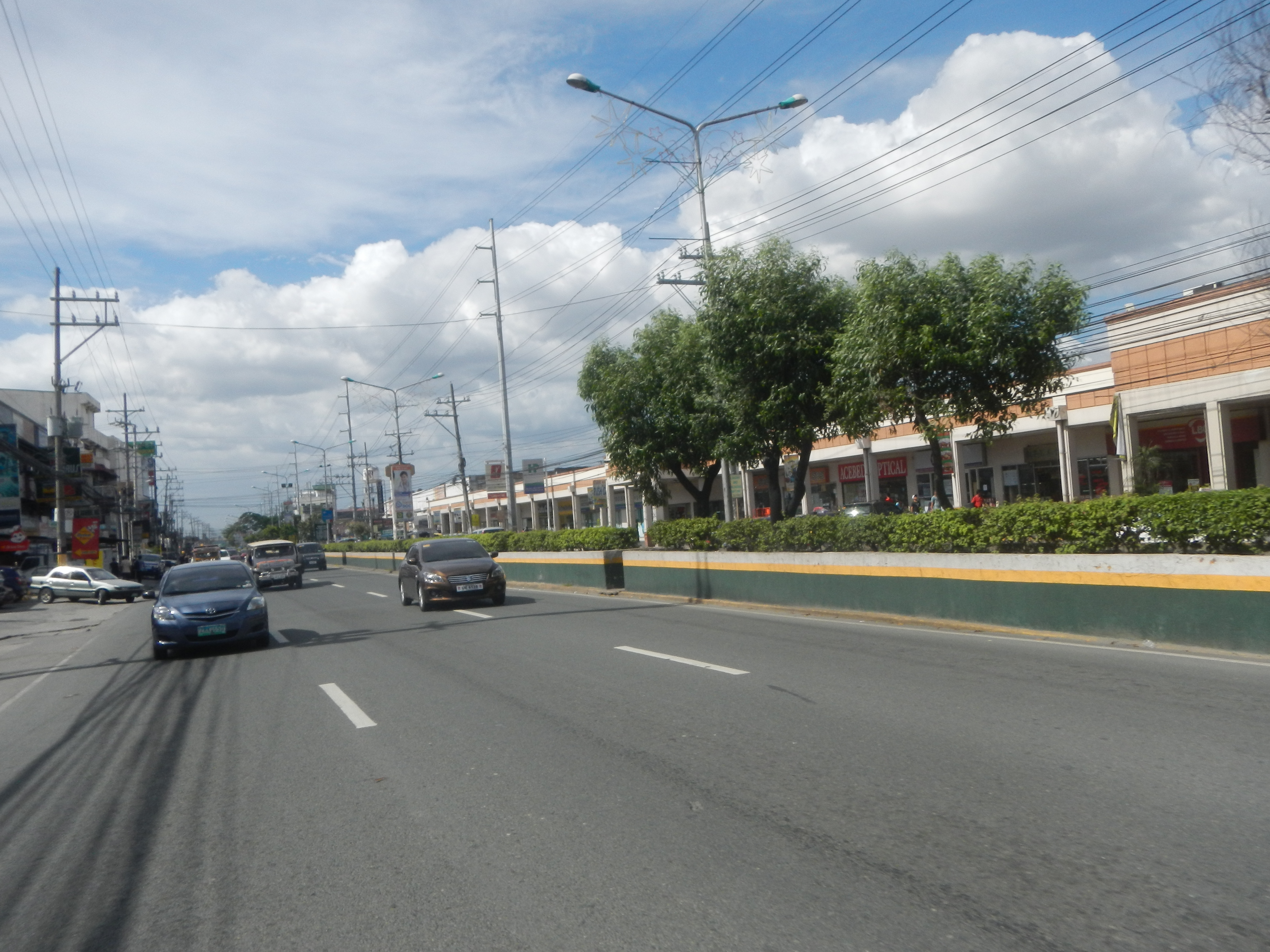 Dr. A. Santos Avenue formerly called (and still known locally as) Sucat Road; Dr. A. Santos Avenue (San Isidro & San Antonio, Parañaque City section) NAIA Road NAIA Expressway - NAIA Road, Pasay & Parañaque City Legislative districts of Parañaque 1st District, Districts and barangays, Barangay La Huerta 14°29'50"N 120°59'43"E beside Santo Niño 14°30'14"N 121°0'11"E Tambo 14°30'59"N 120°59'20"E San Dionisio 14°29'2"N 120°59'33"E BF Homes Parañaque, Baclaran, Parañaque City along Elpidio Quirino Avenue Don Galo-La Huerta Bridge, Parañaque City Sta. 9+766-Sta.9+841 Load limit 20 metric tons upon Parañaque River from and to Roxas Boulevard, Radial Road 2 from Baclaran LRT station (Note: Judge Florentino Floro, the owner, to repeat, Donor Florentino Floro of all these photos hereby donate gratuitously, freely and unconditionally Judge Floro all these photos to and for Wikimedia Commons, exclusively, for public use of the public domain, and again without any condition whatsoever).